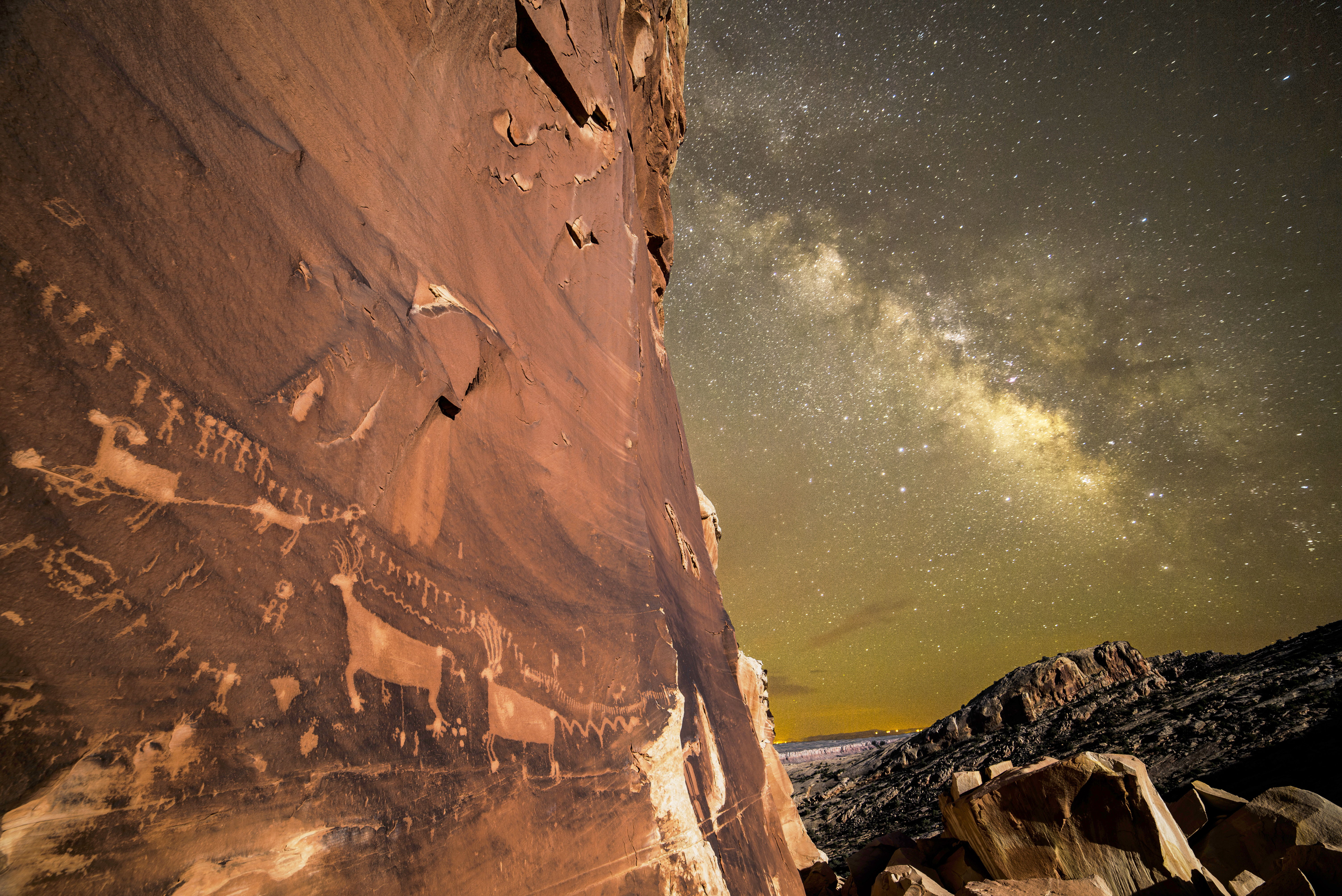 This is a night sky image of the famous Procession Panel found along the Comb Ridge in the Shash Jaa National Monument, also the rescinded Bears Ears National Monument. This petroglyph is estimated to be ~1200 years old. It may represent a ceremonial procession, a migration, a Kiva ceremony?